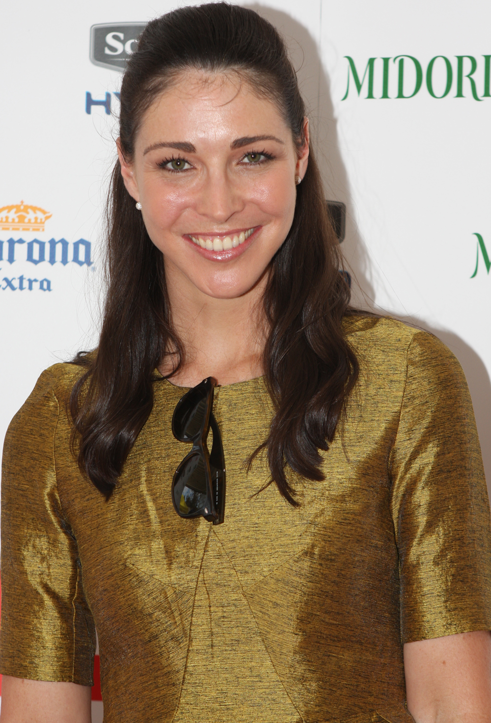 SLAM SUMMER BEACH VOLLEYBALL FESTIVAL kicking off ; Bondi Beach, Sydney, Australia.